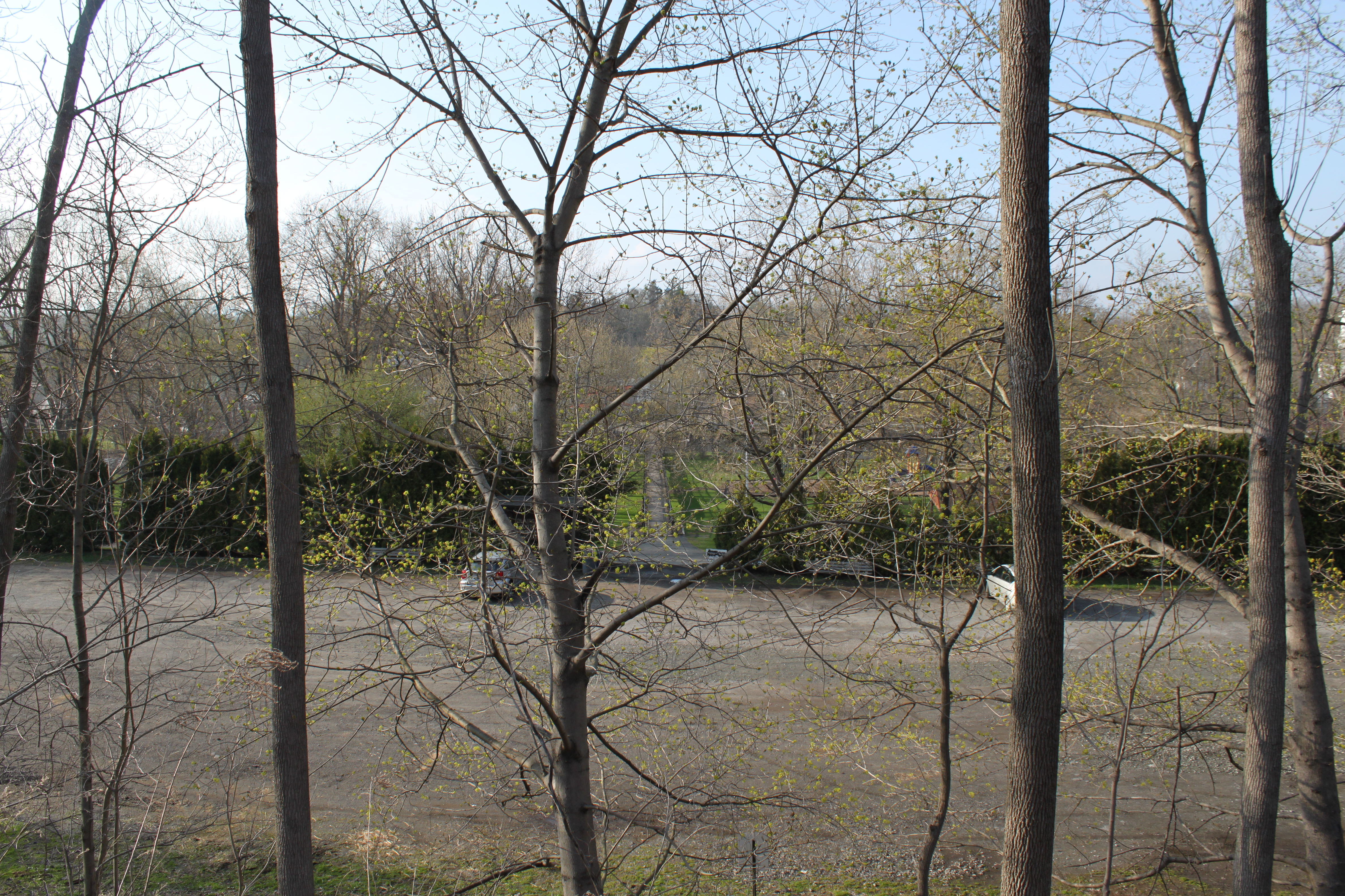 Footbridge Park in Blairstown, NJ.Wally From Columbia (NJ) (talk) 17:03, 21 April 2011 (UTC)